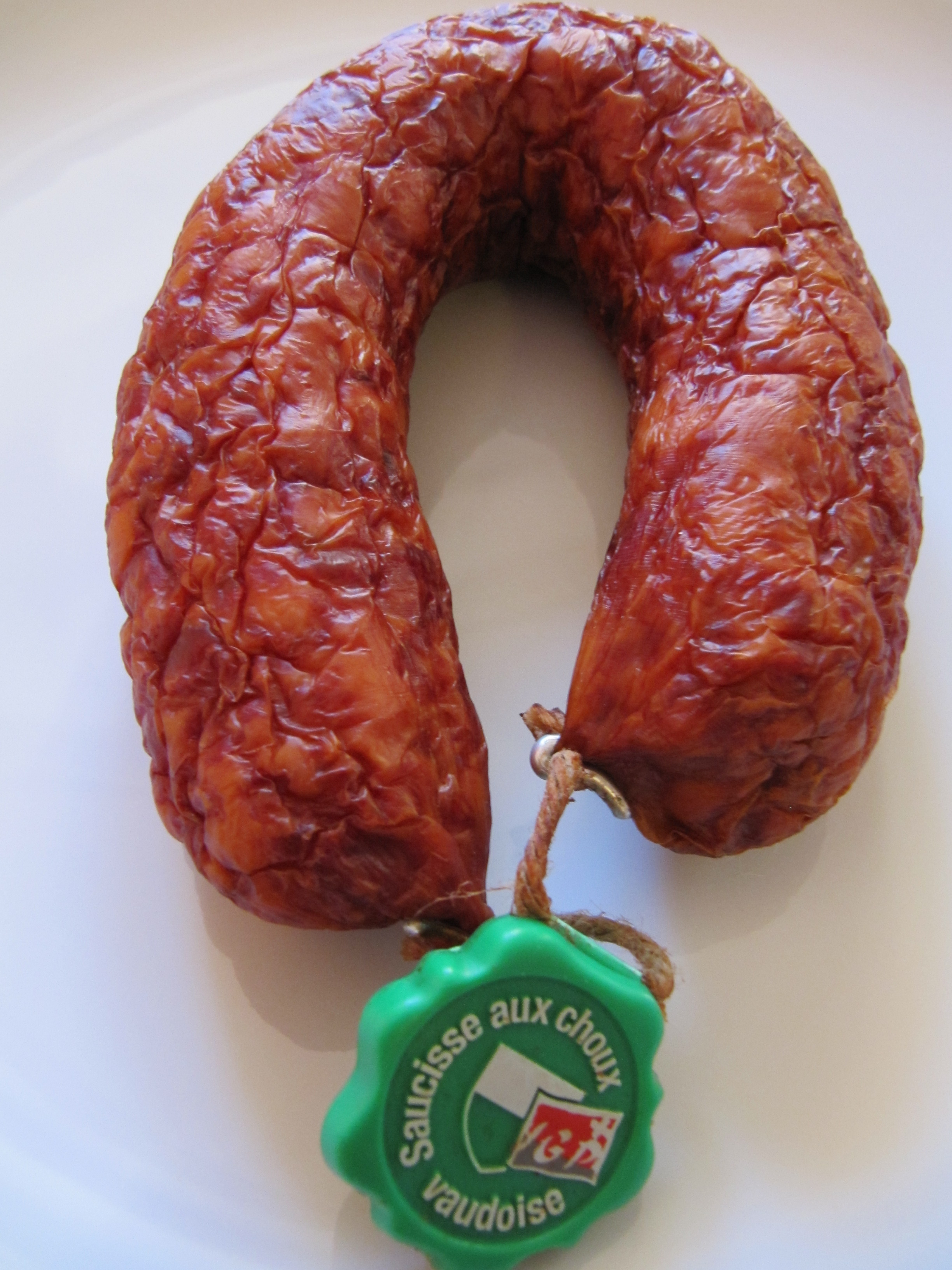 A cabbage-flavoured sausage from the Canton Vaud, Switzerland, with its seal of origin.